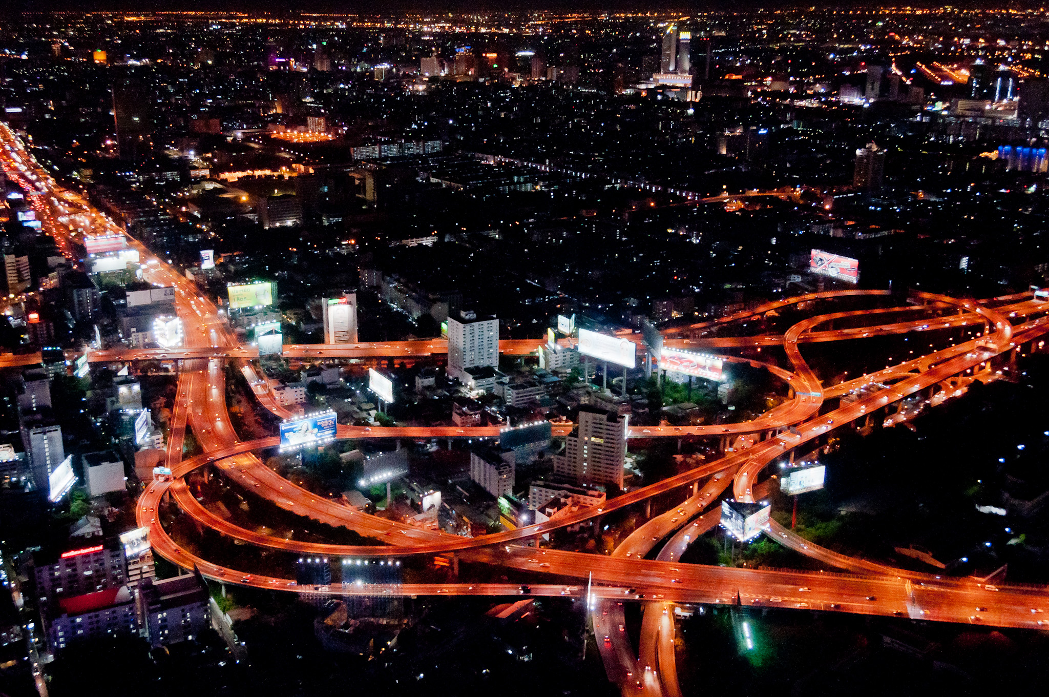 A view of one of the major expressway interchanges in Bangkok, Thailand. Taken from the 84th floor observation desk at the Bayoke Sky Hotel, the tallest building in Thailand. For more, follow me on facebook | Google+ | 500px | tumblr | twitter